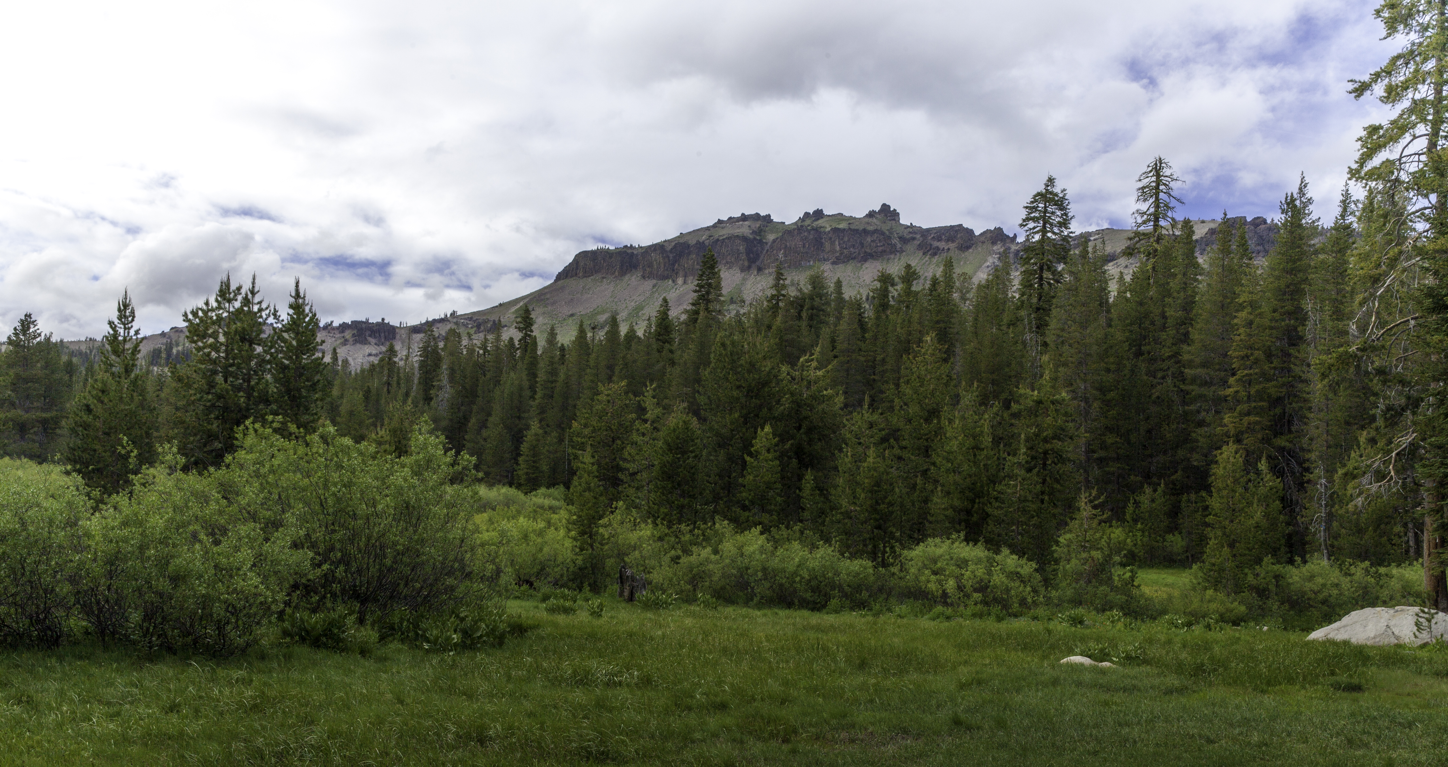 Castle Valley near Lake Tahoe in the Tahoe National Forest in California U.S. Forest Service photo.